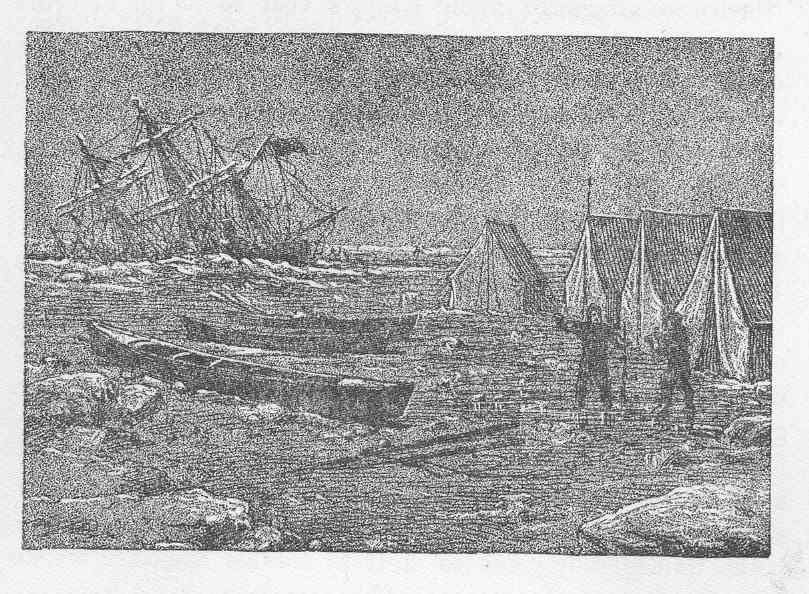 [Jeannette sinking] Subject: Jeannette (Ship), Shipwrecks--Arctic regions Tag: Vessels